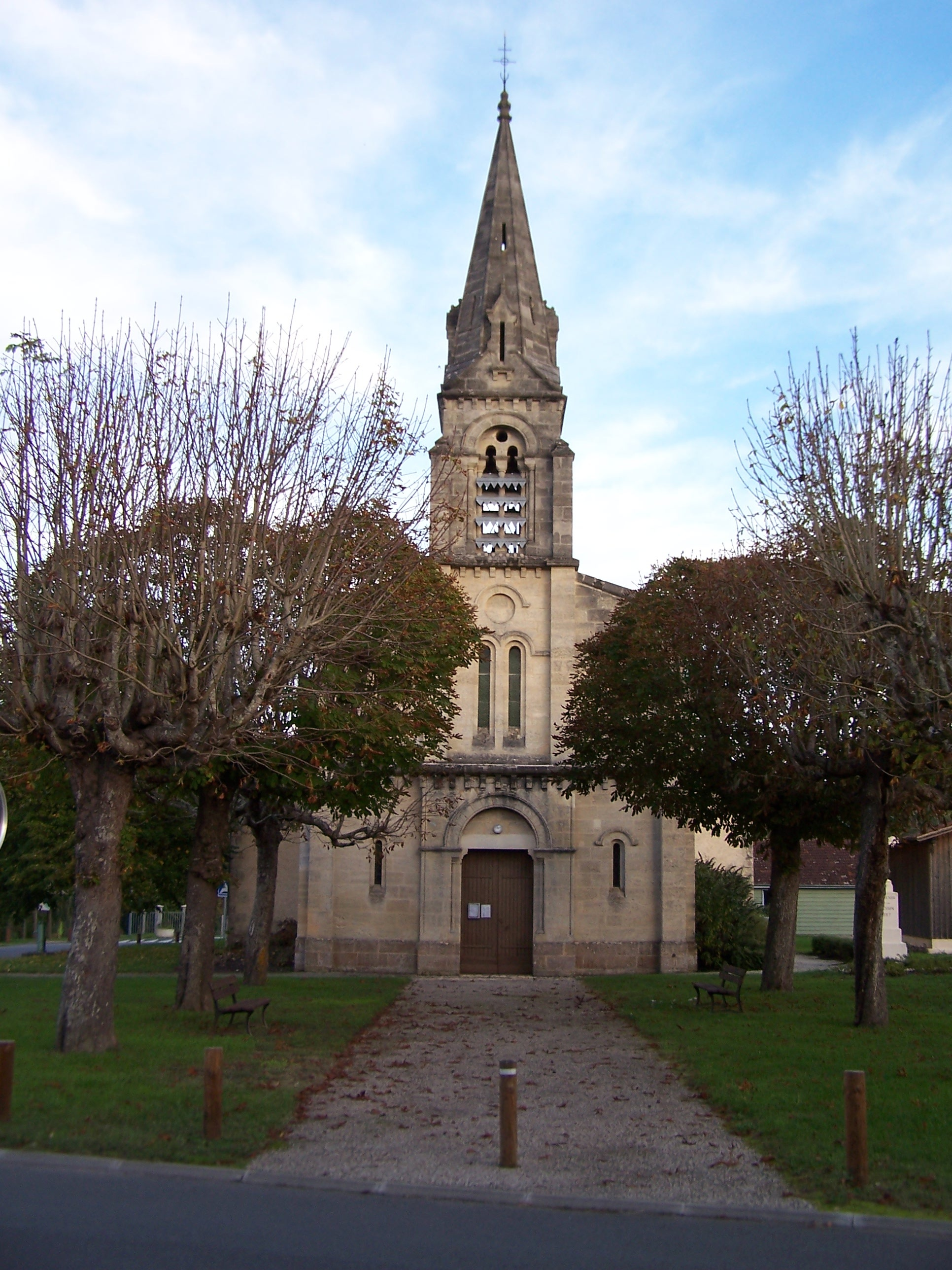 Saint Magdalena church of Cazalis (Gironde, France)